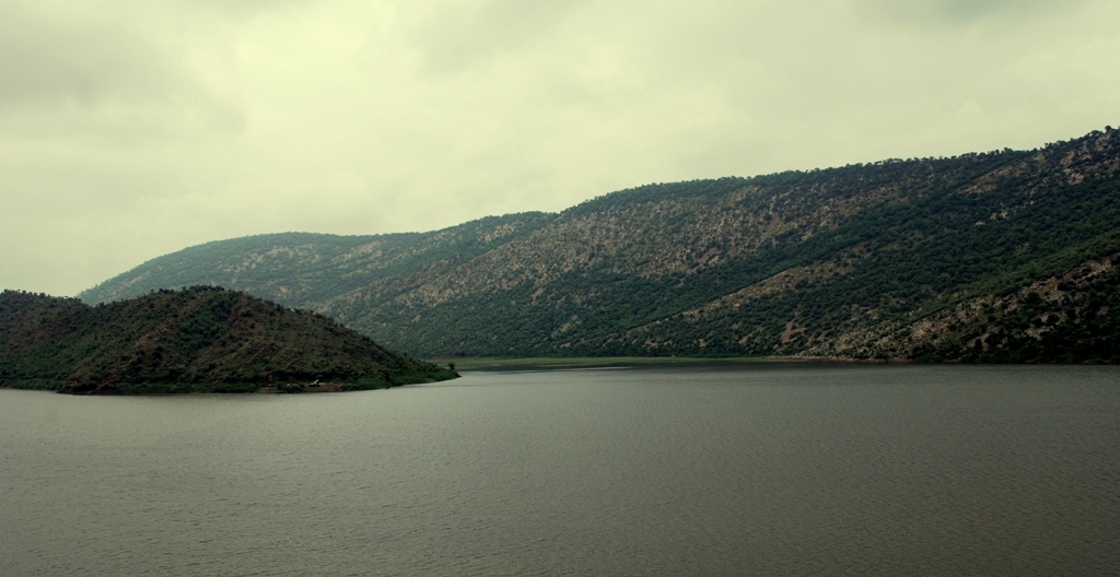 Siliserh Lake is wonderful tourist place in a city called Alwar. Surrounded by green Aravali mountain rang of Rajasthan, India. Alwar city is a historic city founded by Rao Pratap Singh in 1775 A.D. and has many forts and palaces.